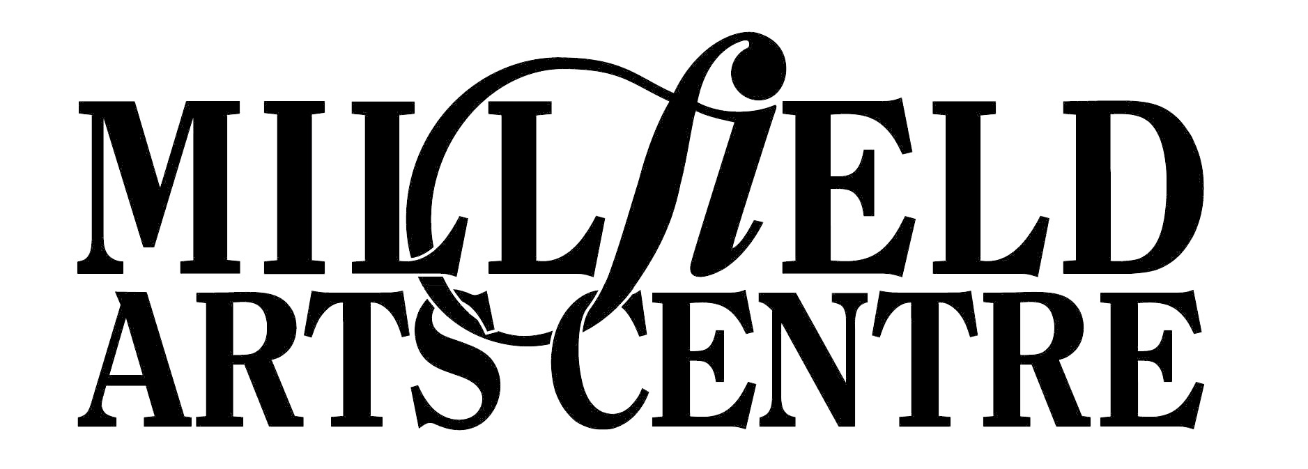 Millfield Arts Centre Logo.